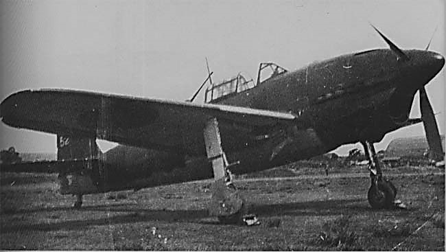 Each D4Y2-S had its bombing systems and equipment removed, and replaced by a 20 mm Type 99 cannon installed in the rear cockpit